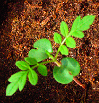 Jacaranda seedling about 10 days after germination. Seed taken from a tree in Encinitas, CA.